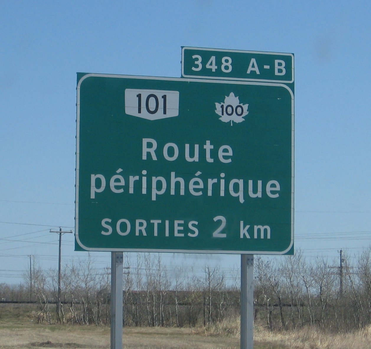 Winnipeg Bypass sign, in French